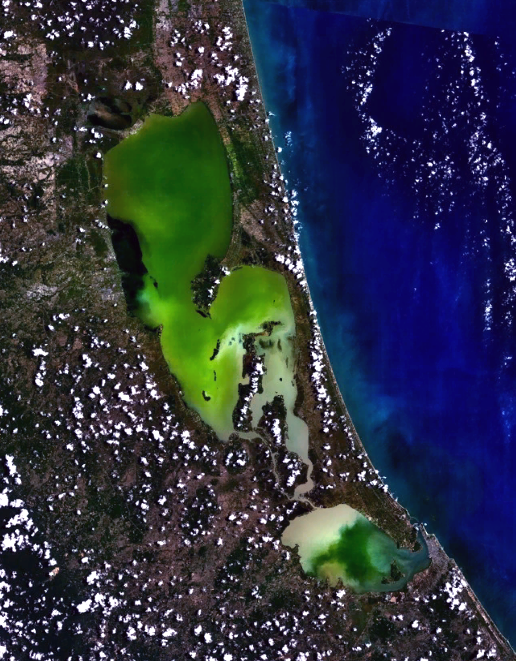 Songkhla Lake from Space